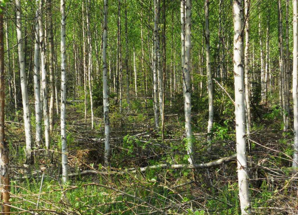 Cleaning (weeding) — second felling, short distance.